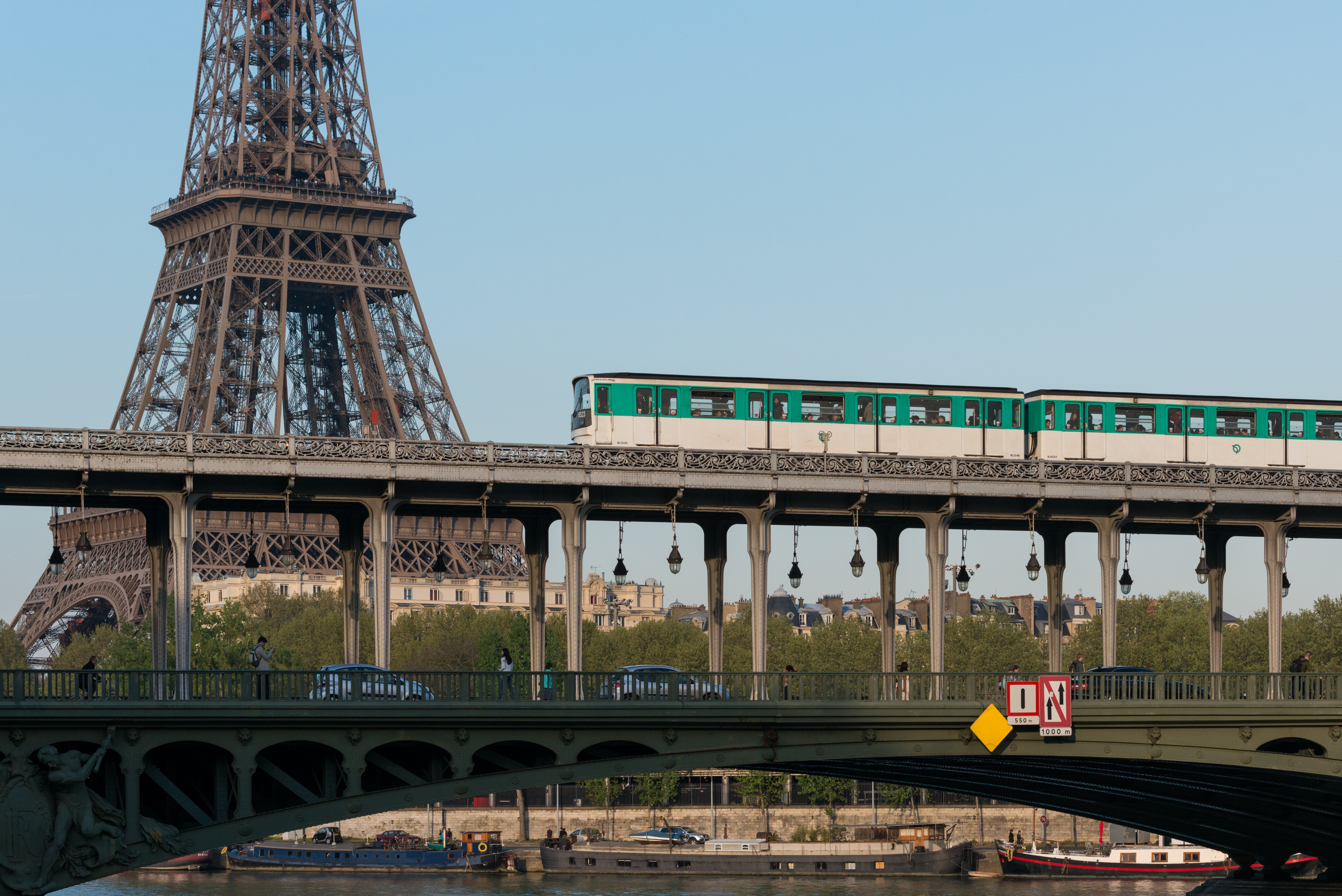 A Paris Métro Line 6 train as it crosses the Pont de Bir-Hakeim to reach the rive droite